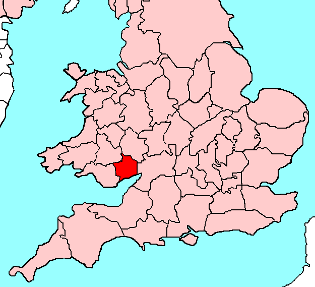 Monmouthshire